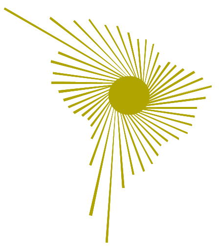 Emblem of the Bolivarian Alliance for the Americas